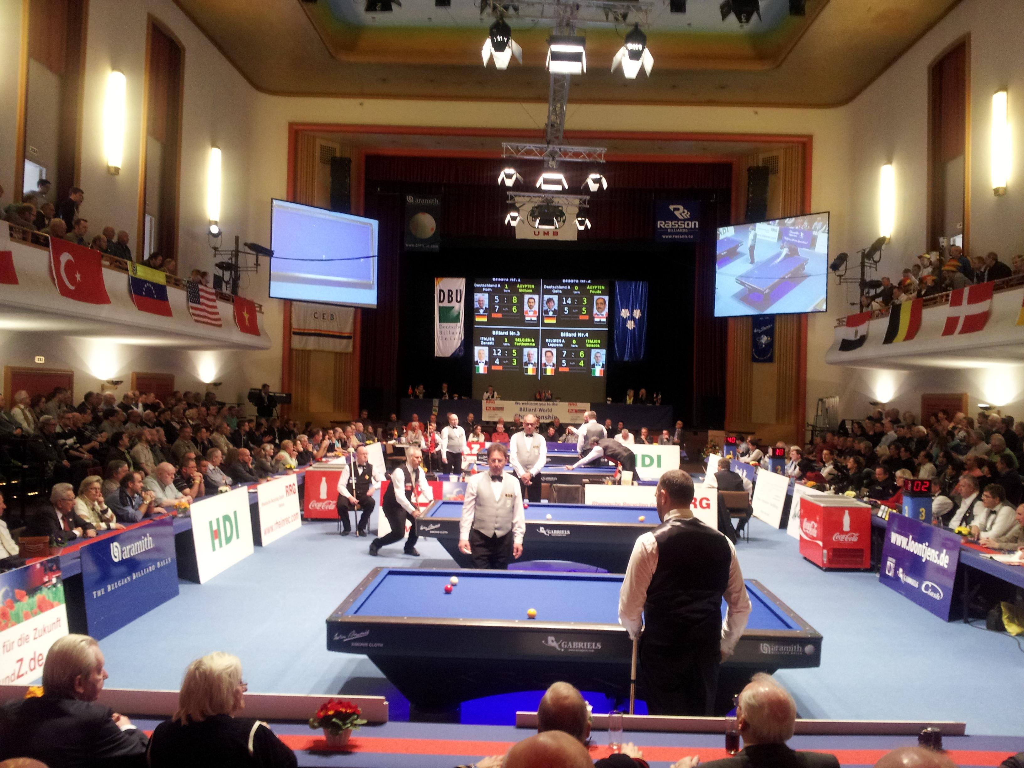 3-cushion-team world championship 2014 in Viersen, Germany.